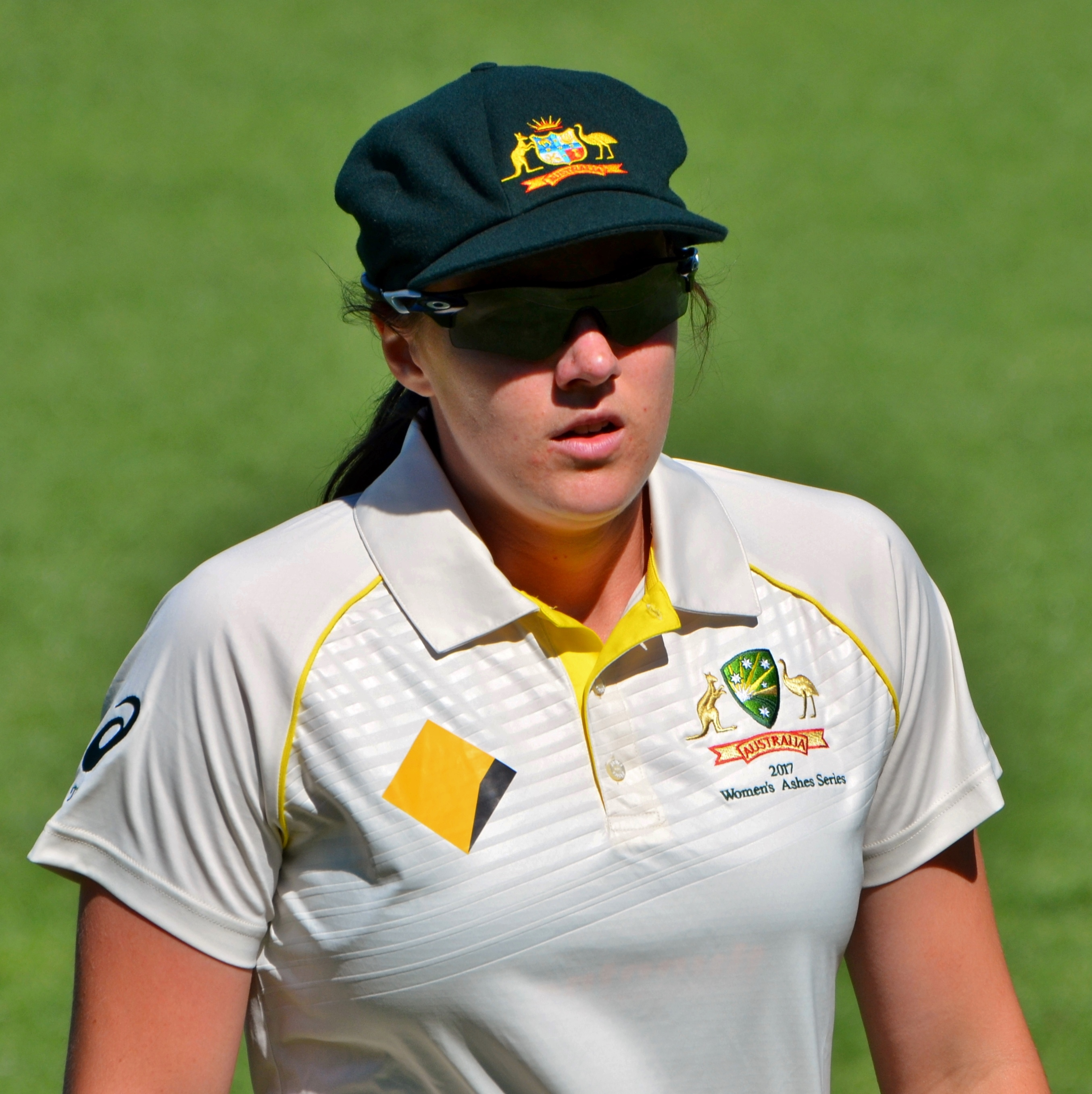 Tahlia McGrath fielding on the first day of the 2017–18 Women's Ashes Test at North Sydney Oval.